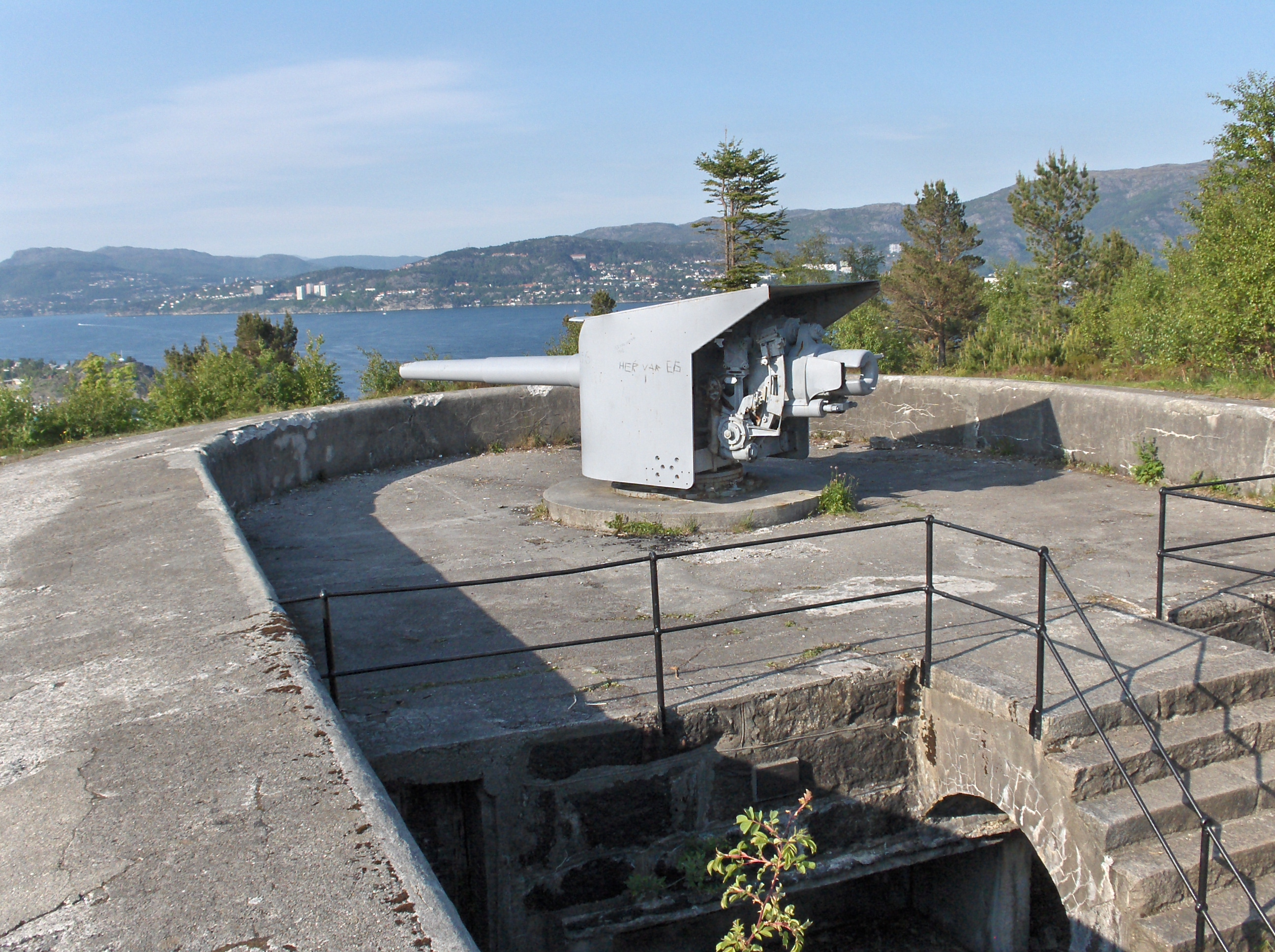 A cannon position at Kvarven fort in Bergen, Norway.